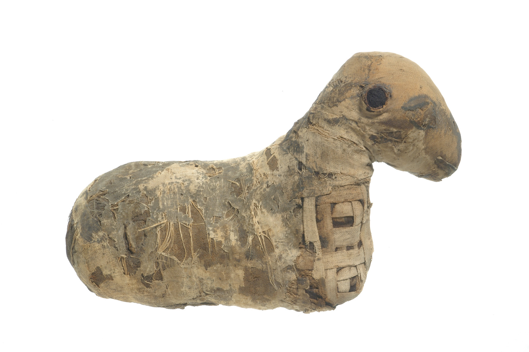 Mummy of a lamb